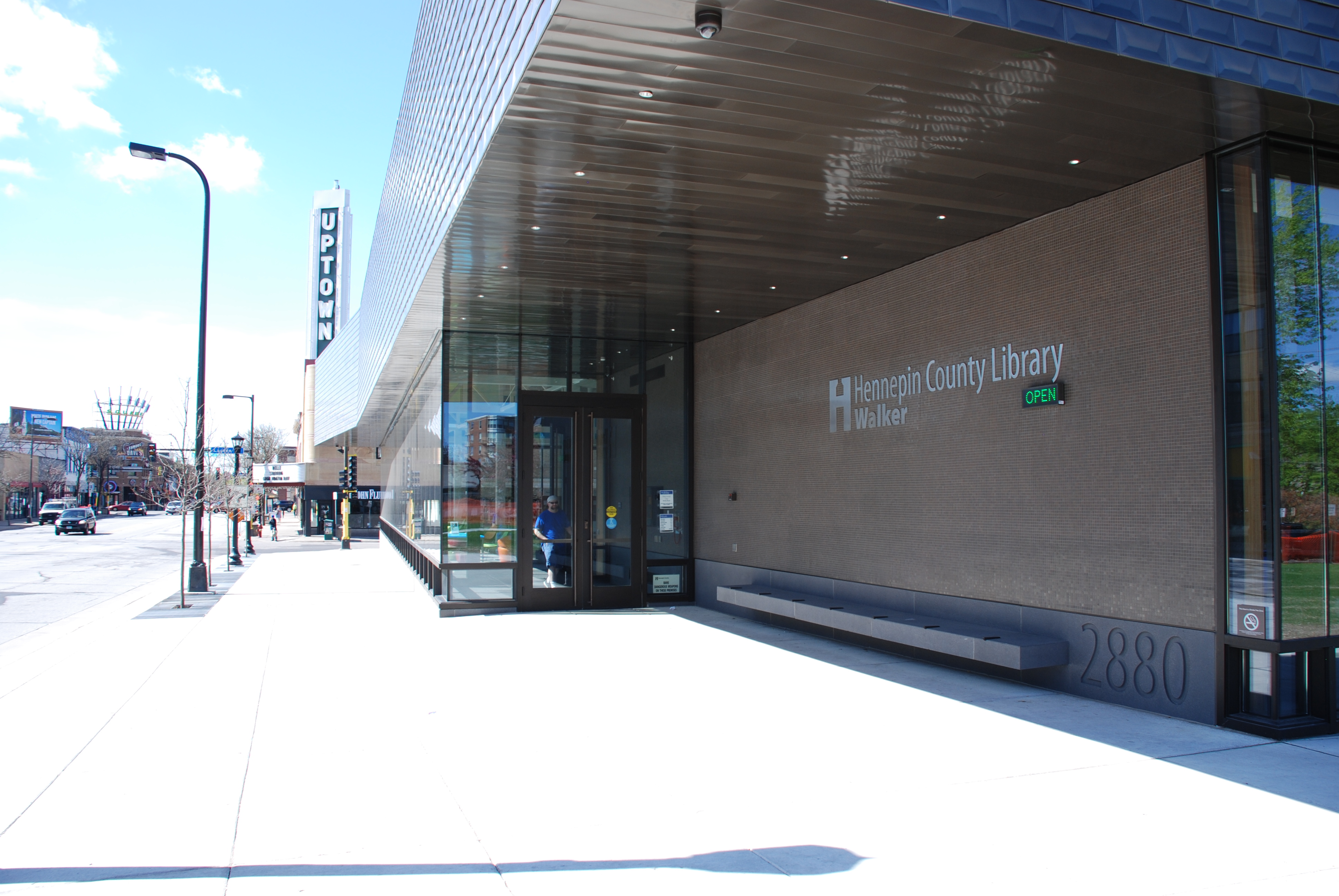 Photo created by Hennepin County Library of Walker Library.